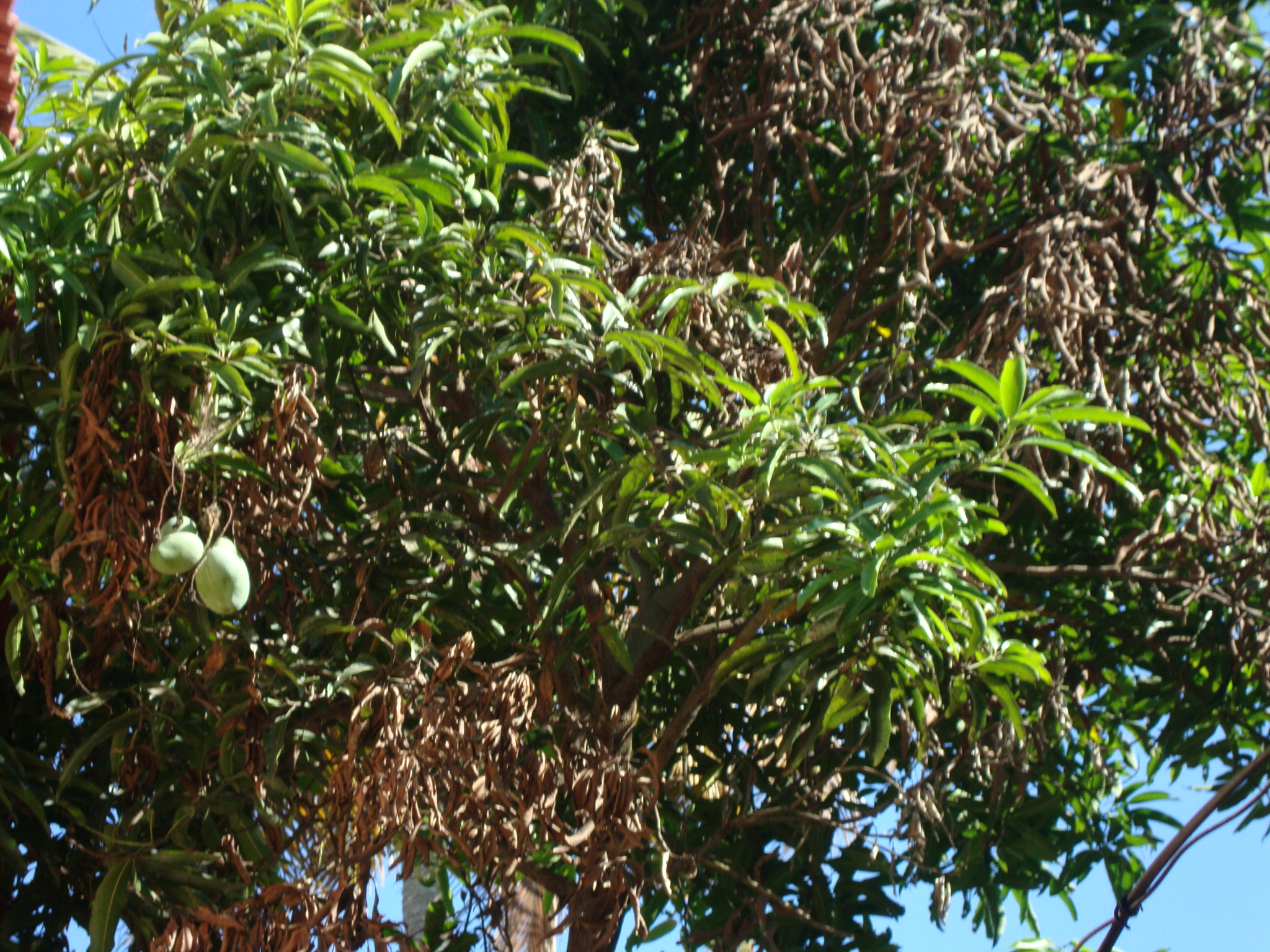 A view of Mangifera Indica in South India.